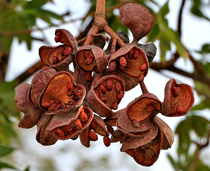 Sterculia foetida - Wild Indian Almond, Peon, Poon Tree, Hazel Sterculia, Java Olive, Skunk Tree, Jungli Badam; Kudrapdukku, Pinari, Kokaru, Kukar, Goldhar in Hyderabad, India.